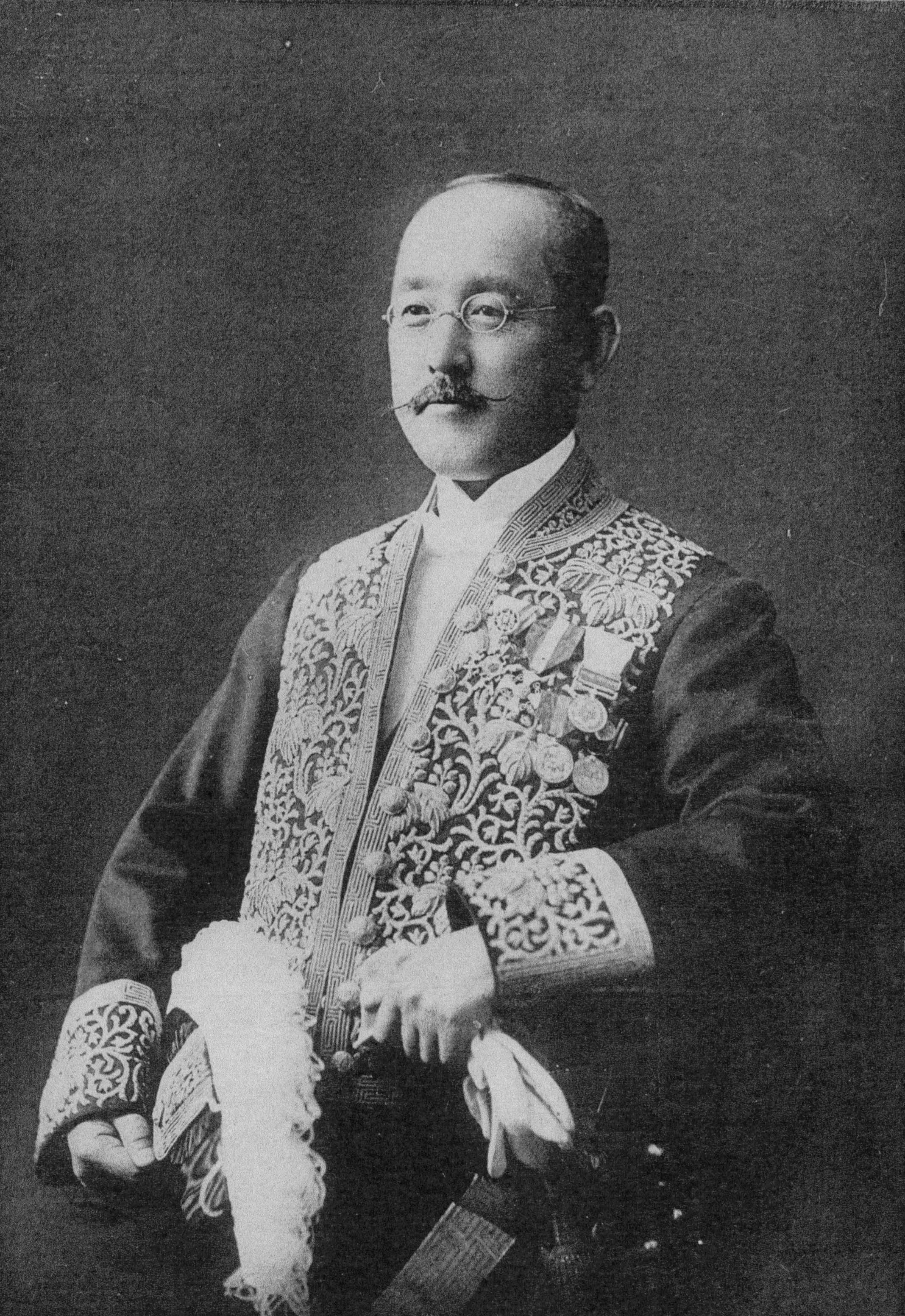 The Late Mr. M. Kuru.